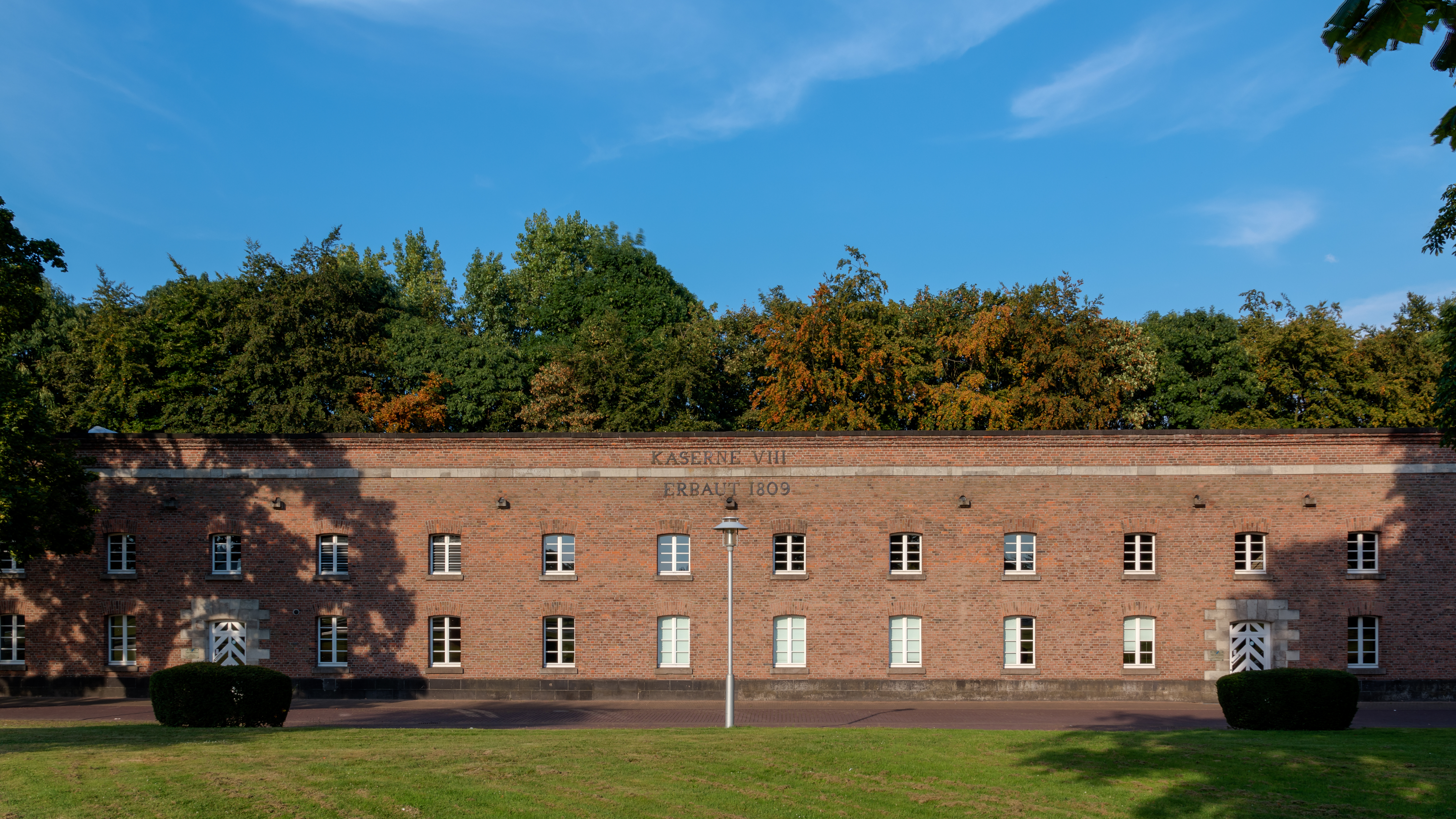 Citadel in Wesel, North Rhine-Westphalia, Germany This image shows a heritage building in Germany, located in the North Rhine-Westphalian city Wesel (no. 4).